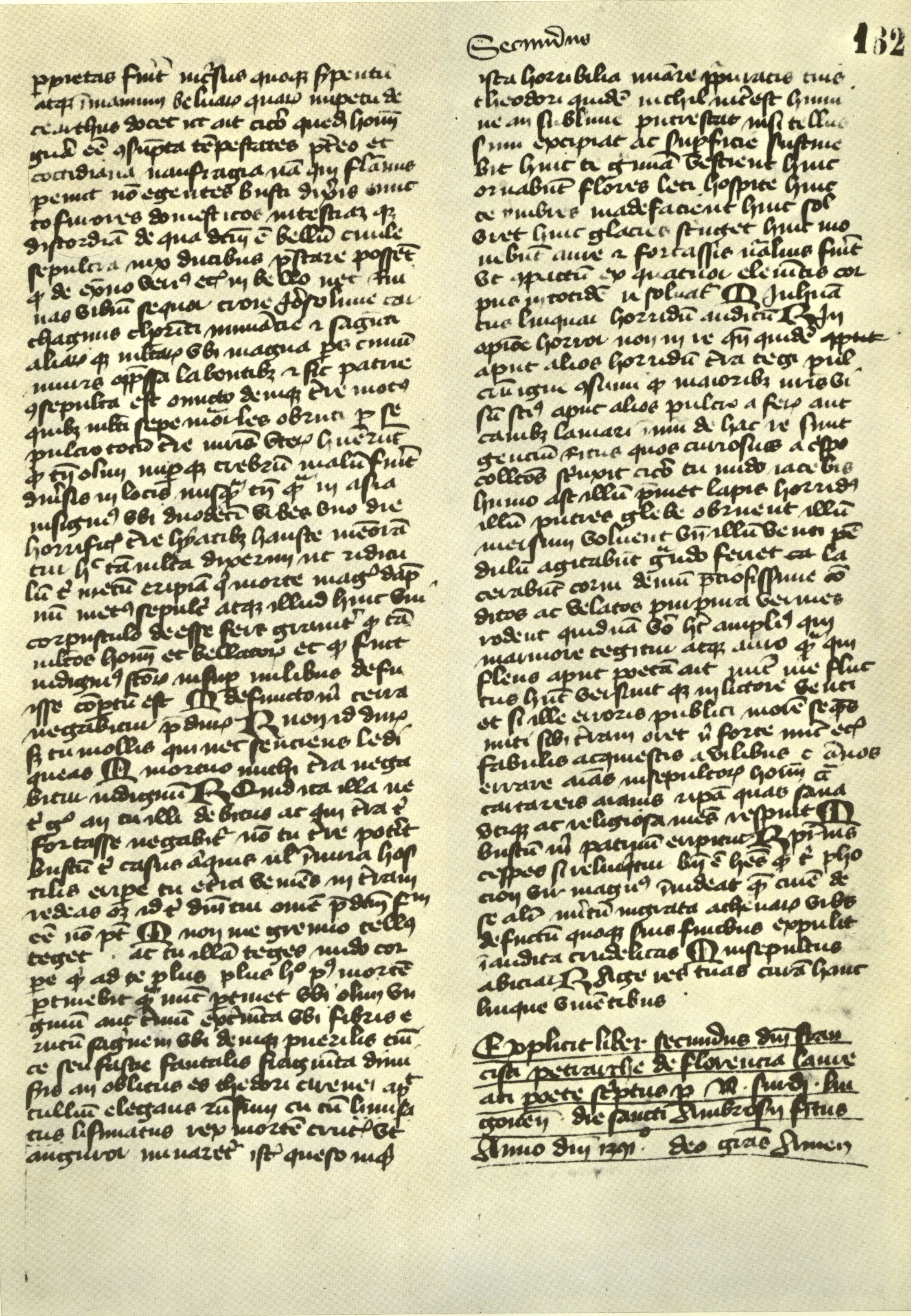 Petrarch, De remediis utriusque fortunae. Script: Early French Bastarda. Douai, Bibliothèque municipale, Ms. 694,fol. 162r.